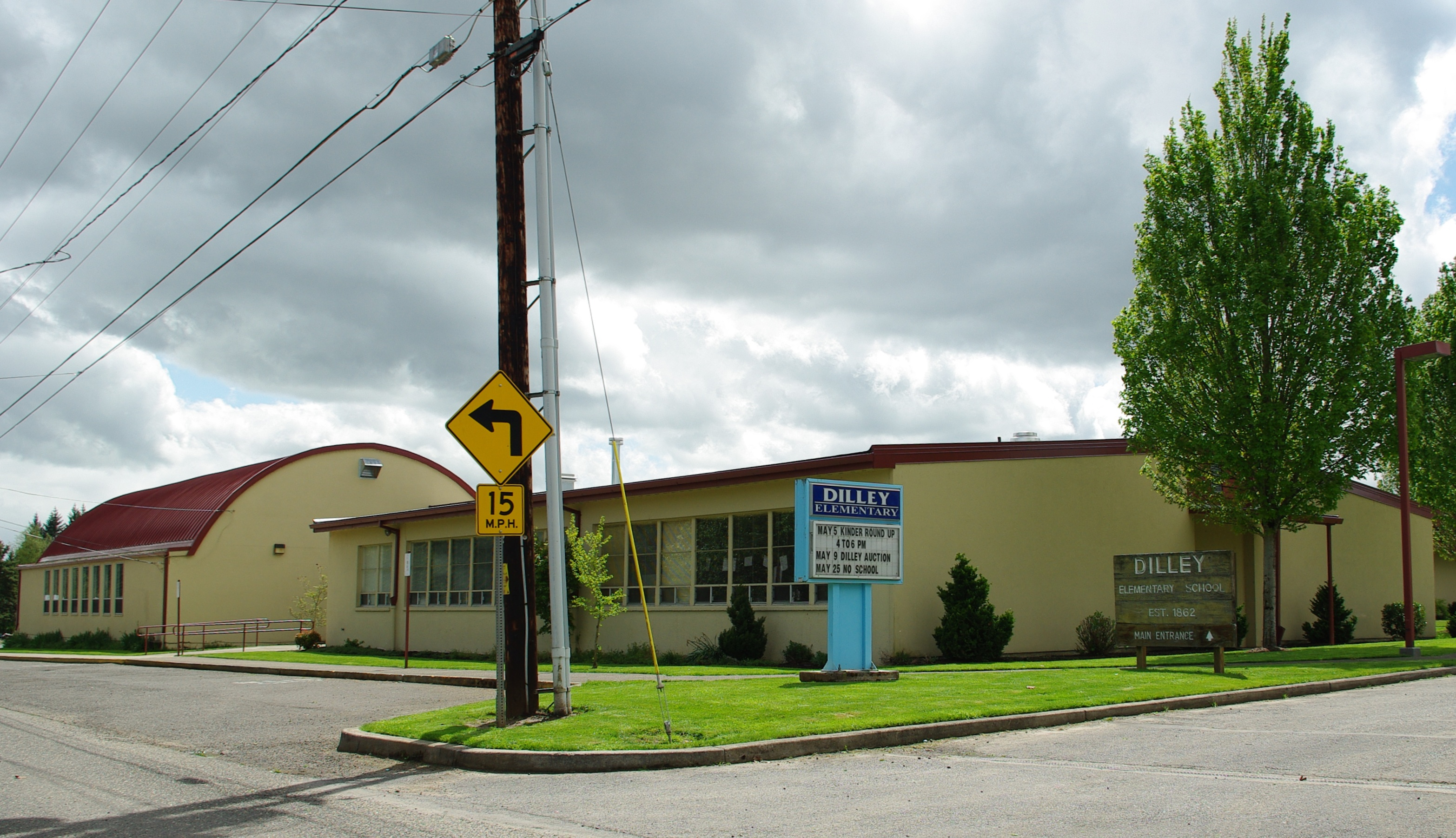 Dilley Elementary School in Dilley, Oregon. Part of the Forest Grove School District